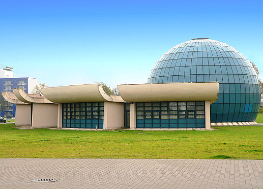 Planetarium Wolfsburg Foto aufgenommen von Axel Hindemith, November 2005 Originally uploaded by User:Axel Hindemith on german wikipedia; description page is (was) here